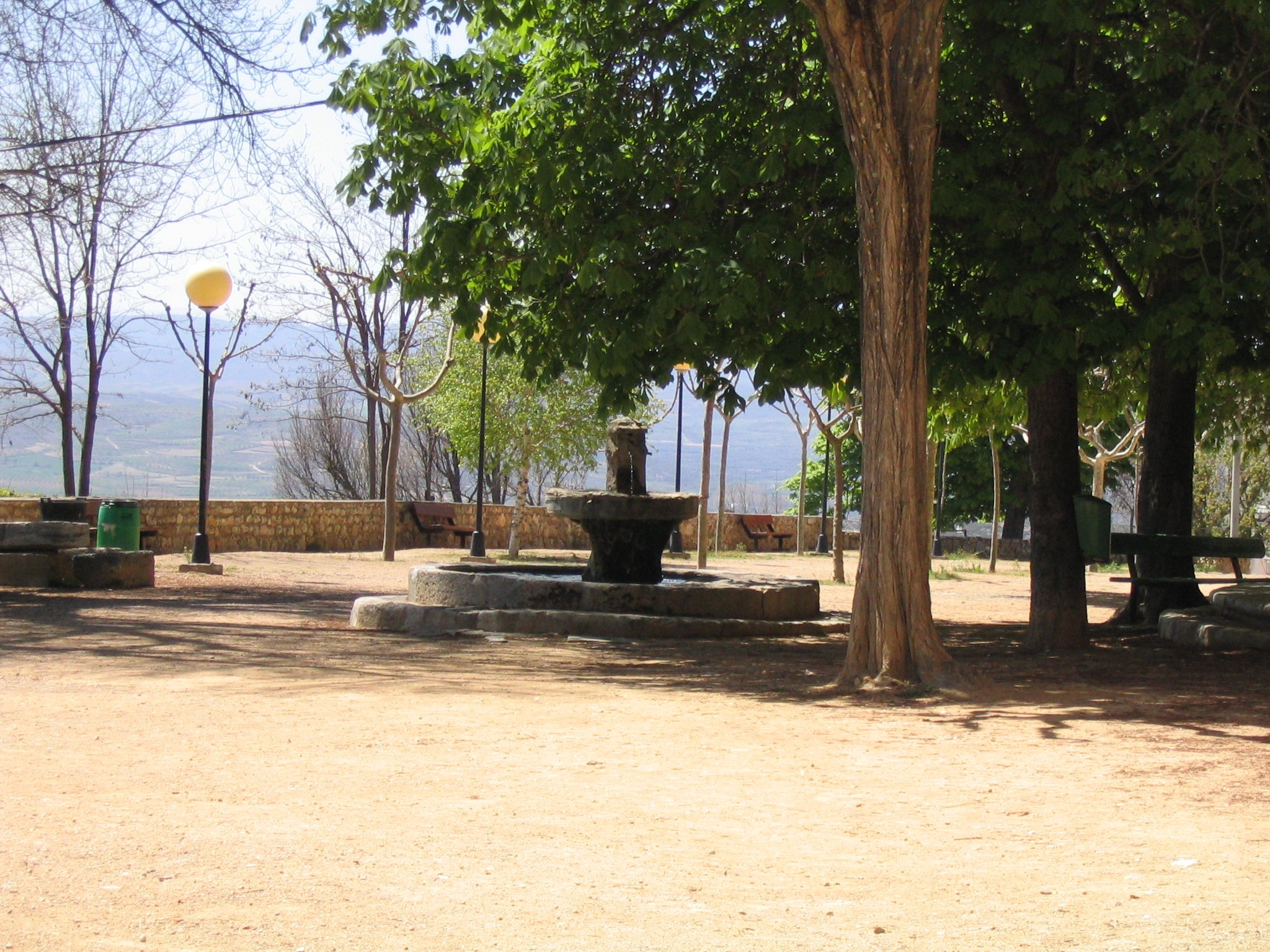 Main square of the Sanctuary of Mercy (Santuario de Misericordia), in Borja.